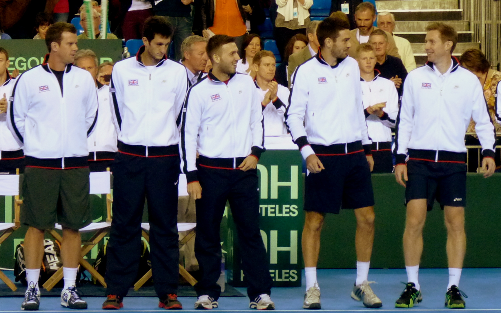 From left tor right: Leon Smith (captain), James Ward, Dan Evans, Colin Fleming, Jonny Marray. The team beat Russia 3-2, in Coventry, April 5th-7th 2013.